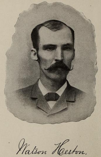 Autobiographical cartoon of Watson Heston